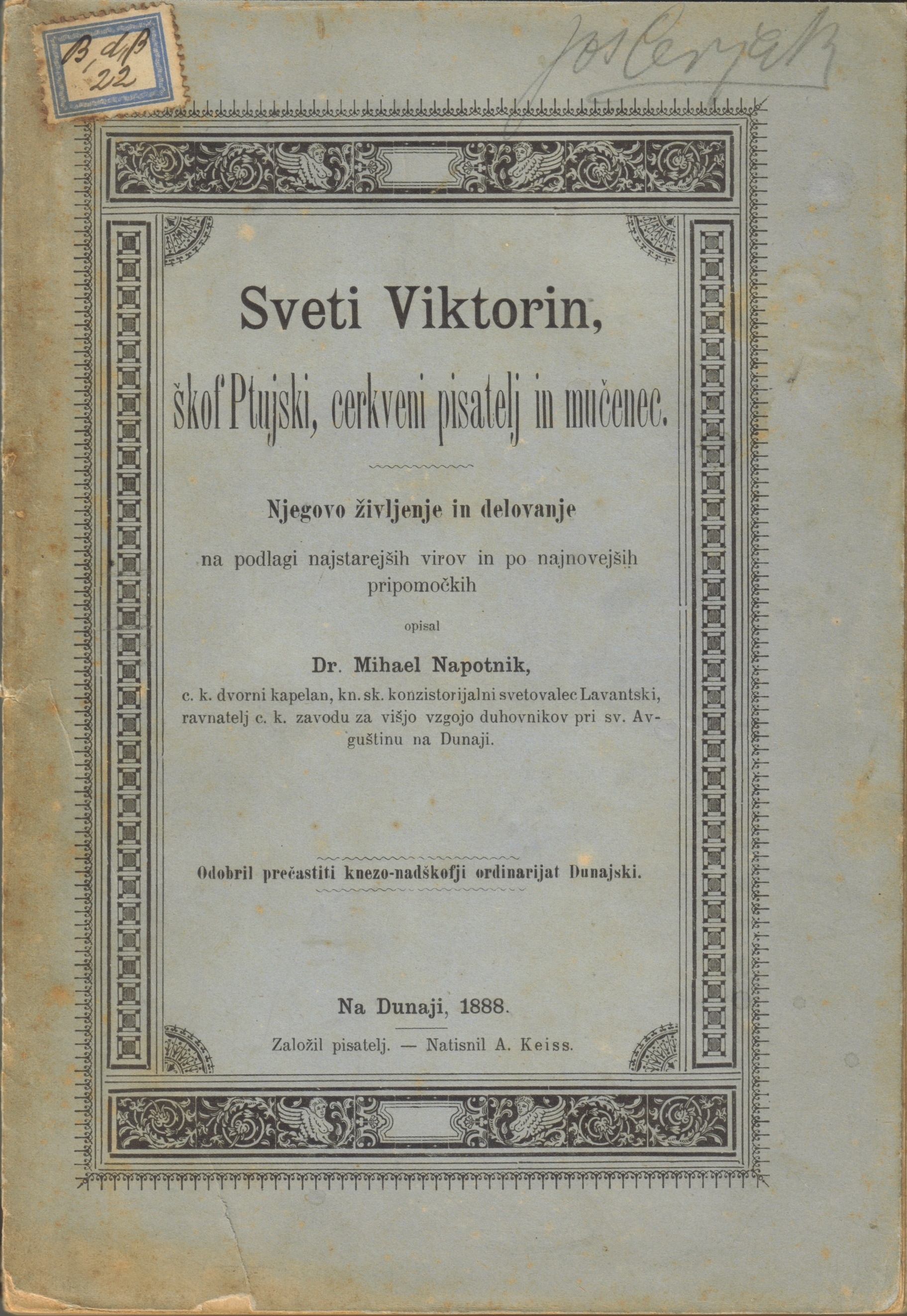 Cover of the book Sveti Viktorin.